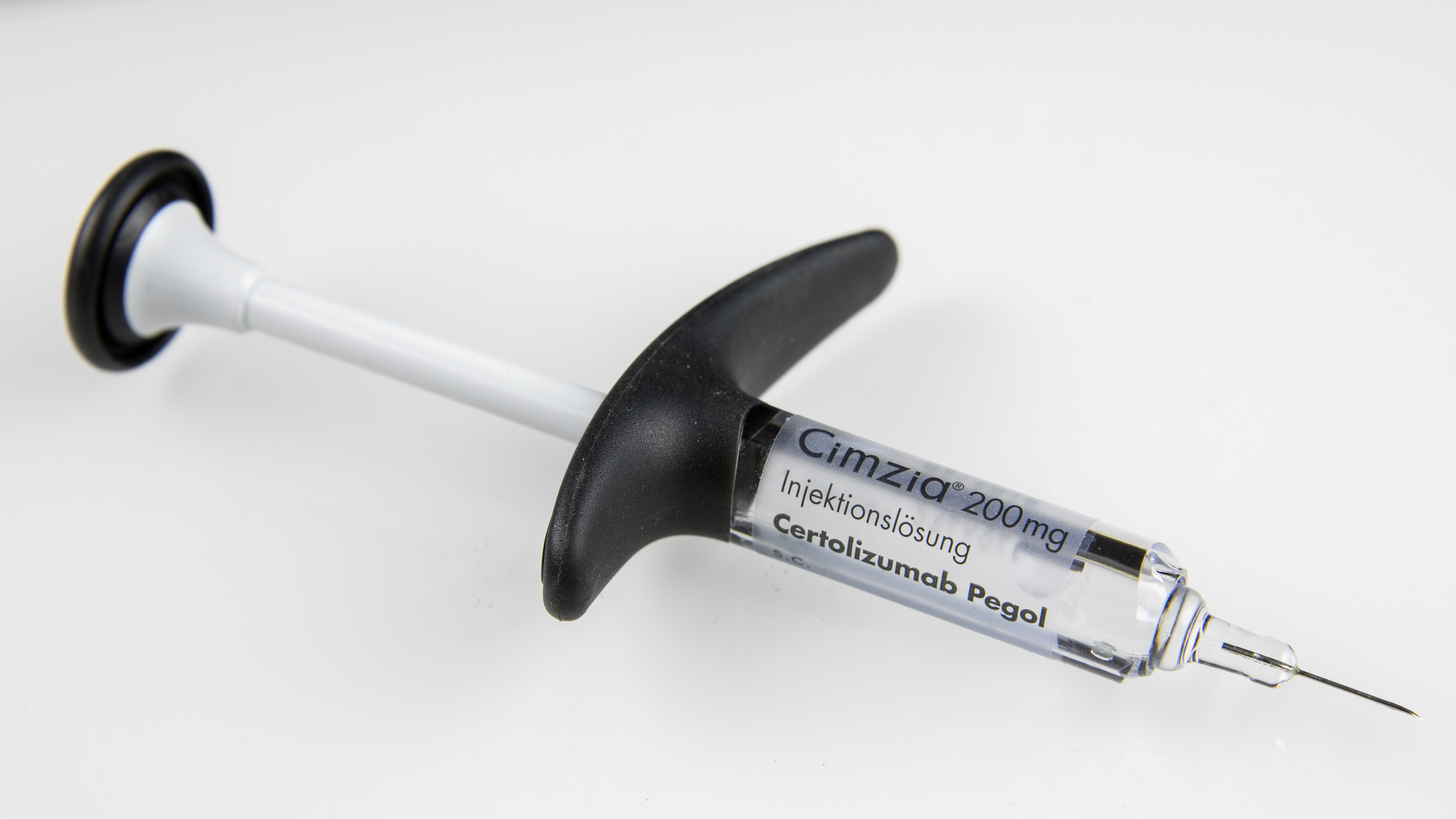 Syringe with Certolizumab pegol (Cimzia), 200 mg